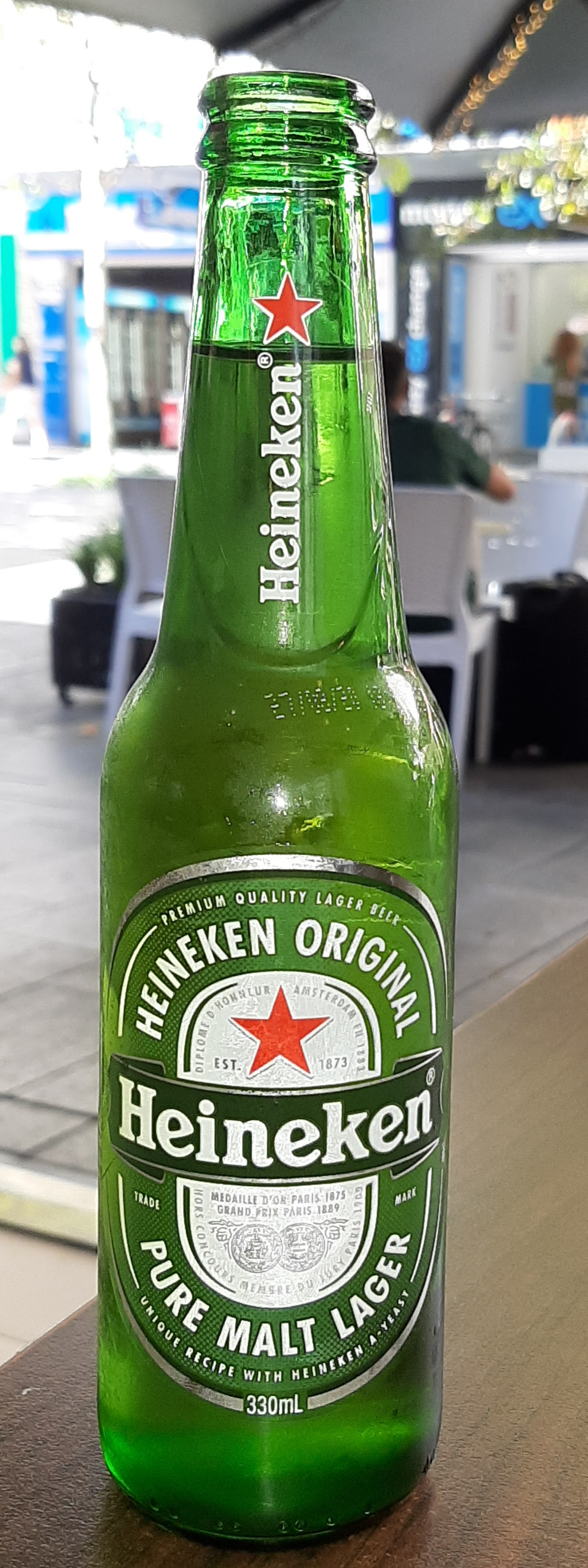 Heineken Bottle 330mL